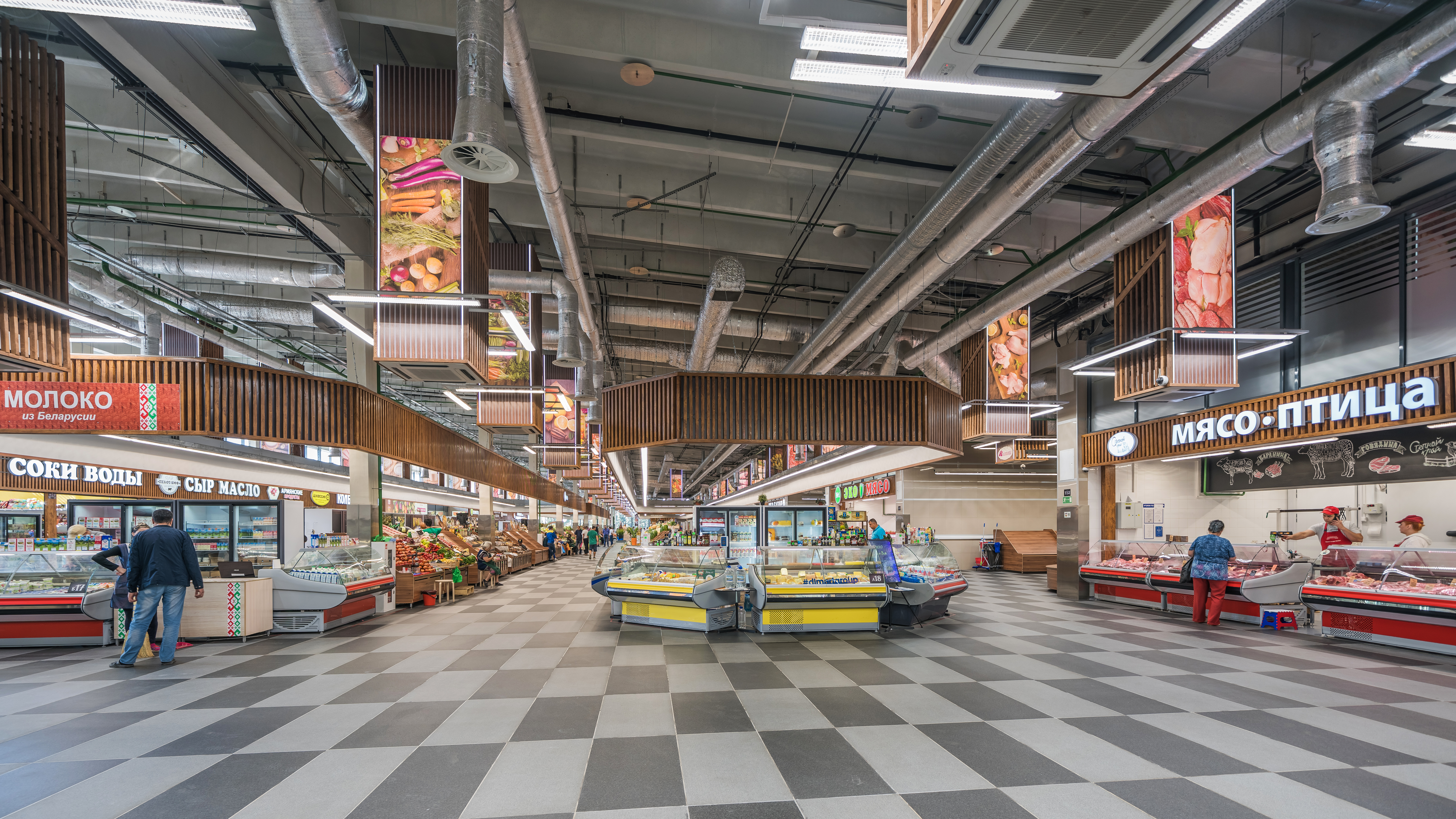 Interior of Velozavodsky Market Hall in Moscow, Russia